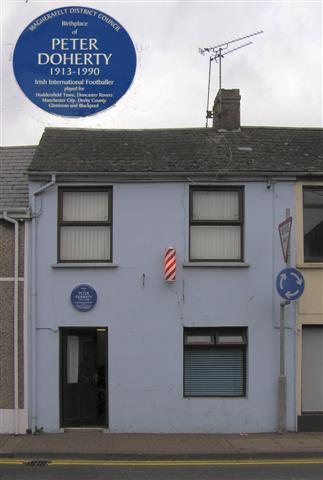 Birthplace of Peter Doherty, Magherafelt The plaque reads "Magherafelt District Council Birthplace of Peter Doherty 1913 - 1990 Irish International Footballer played for Huddersfield Town, Doncaster Rovers, Manchester City, Derby County, Glentoran and Blackpool" - The building is used as a barber's shop now.